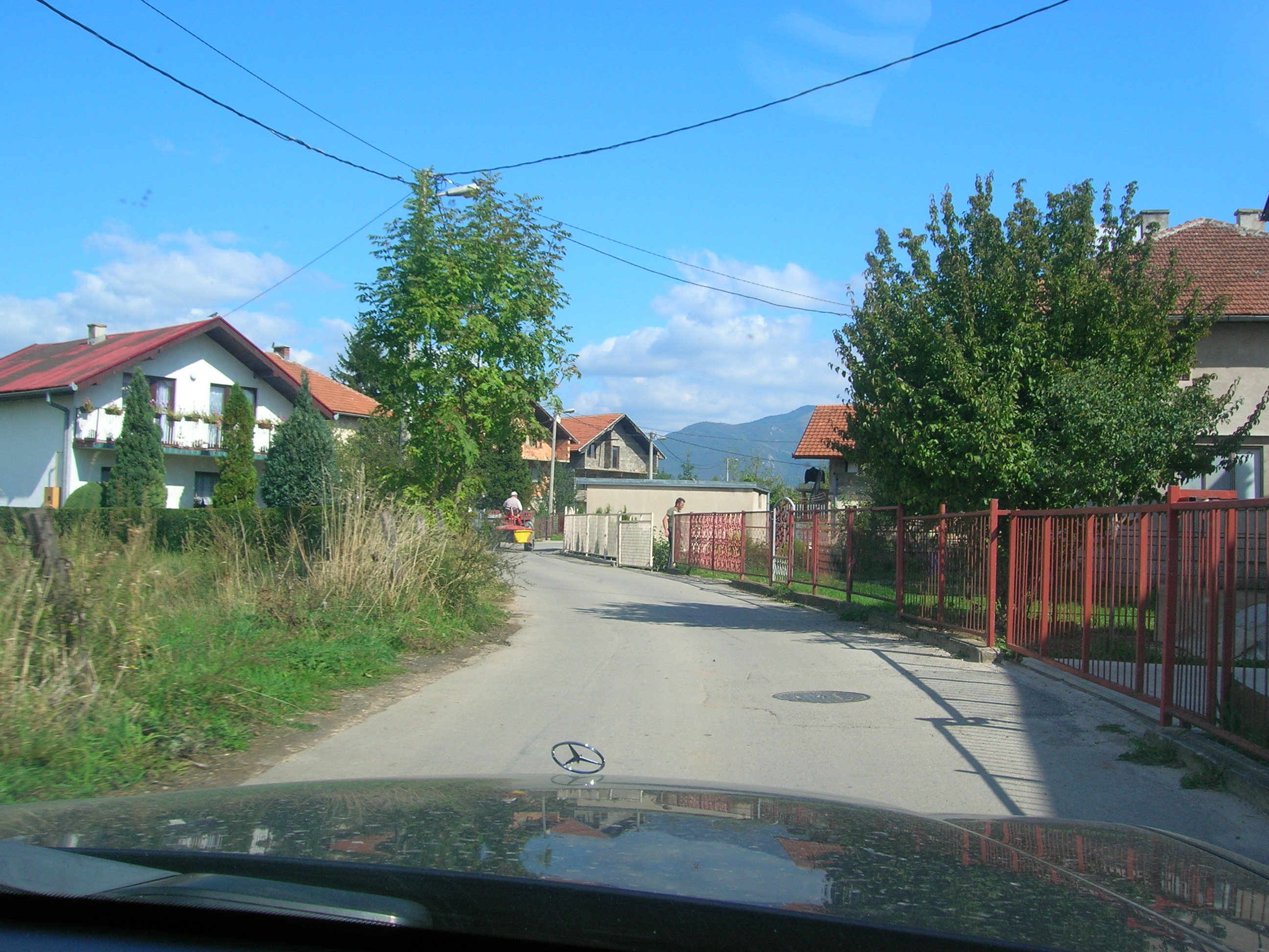 The road through the suburb where the tunnel museum is situated.